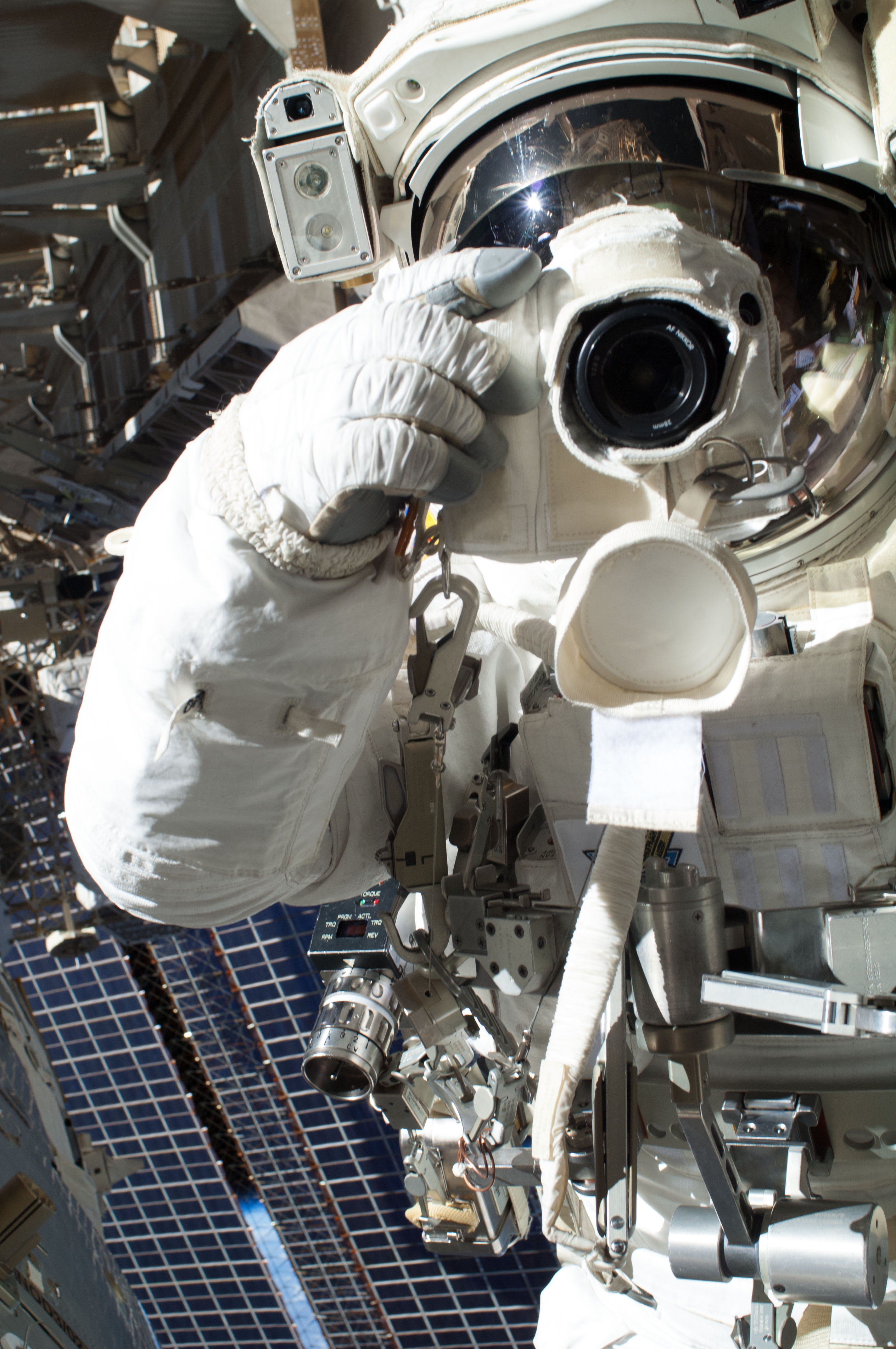 NASA astronaut Chris Cassidy, Expedition 36 flight engineer, uses a digital still camera during a session of extravehicular activity (EVA) as work continues on the International Space Station. A little more than one hour into the spacewalk, European Space Agency astronaut Luca Parmitano (out of frame) reported water floating behind his head inside his helmet. The water was not an immediate health hazard for Parmitano, but Mission Control decided to end the spacewalk early.